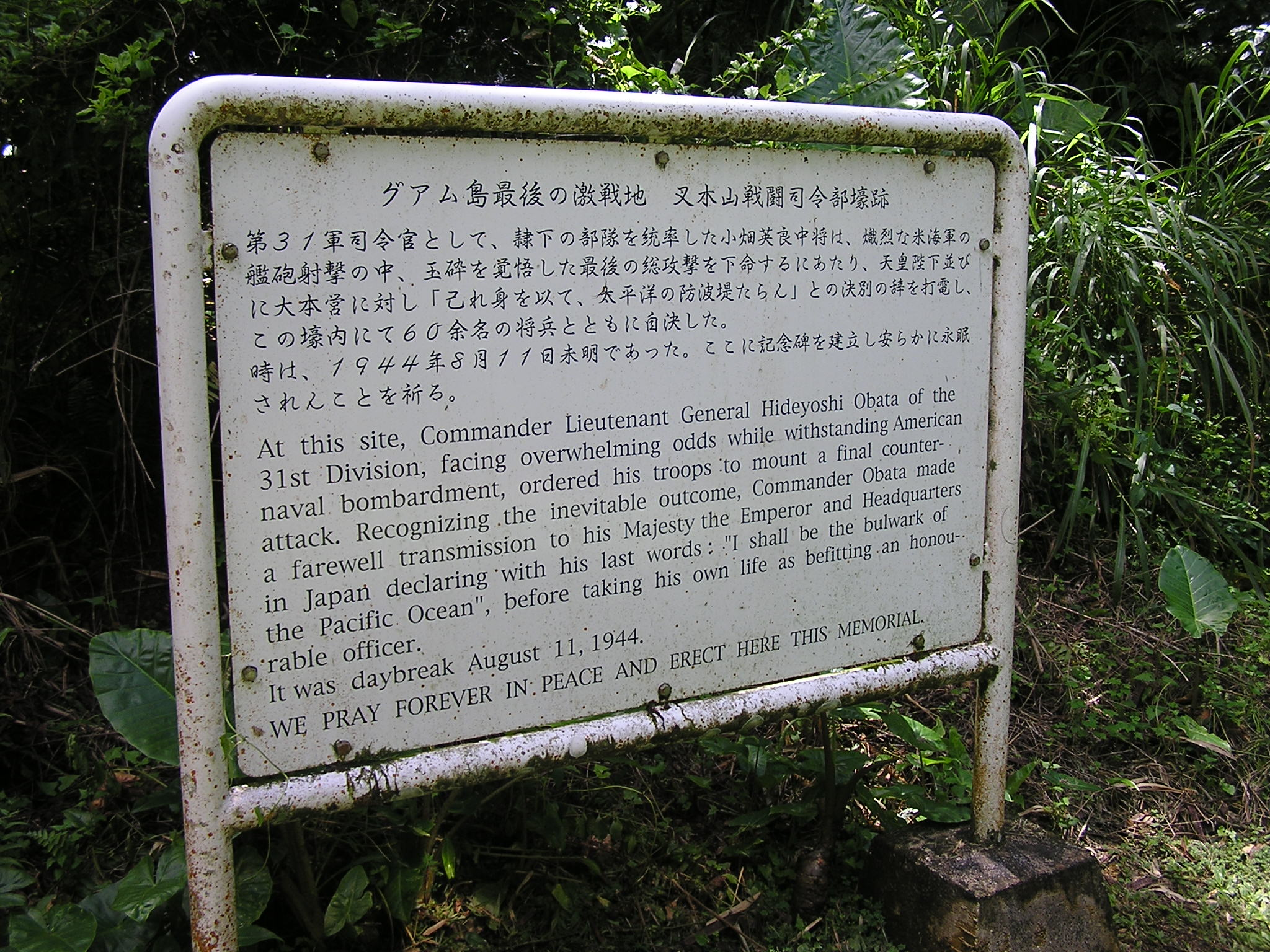 Sign remembering Japanese Admiral Hideyoshi Obata at the South Pacific Memorial Park in Yigo